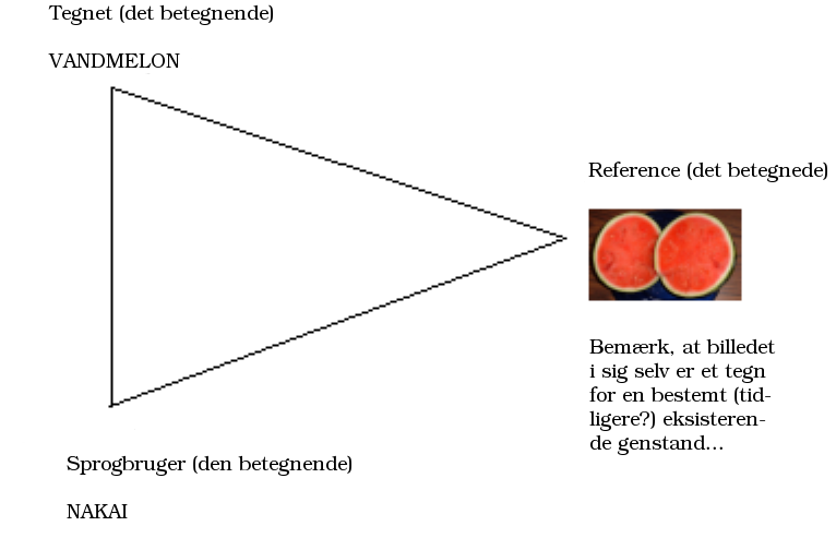 The semiotic triangle (borrowed from Triangle semiotique french.png)